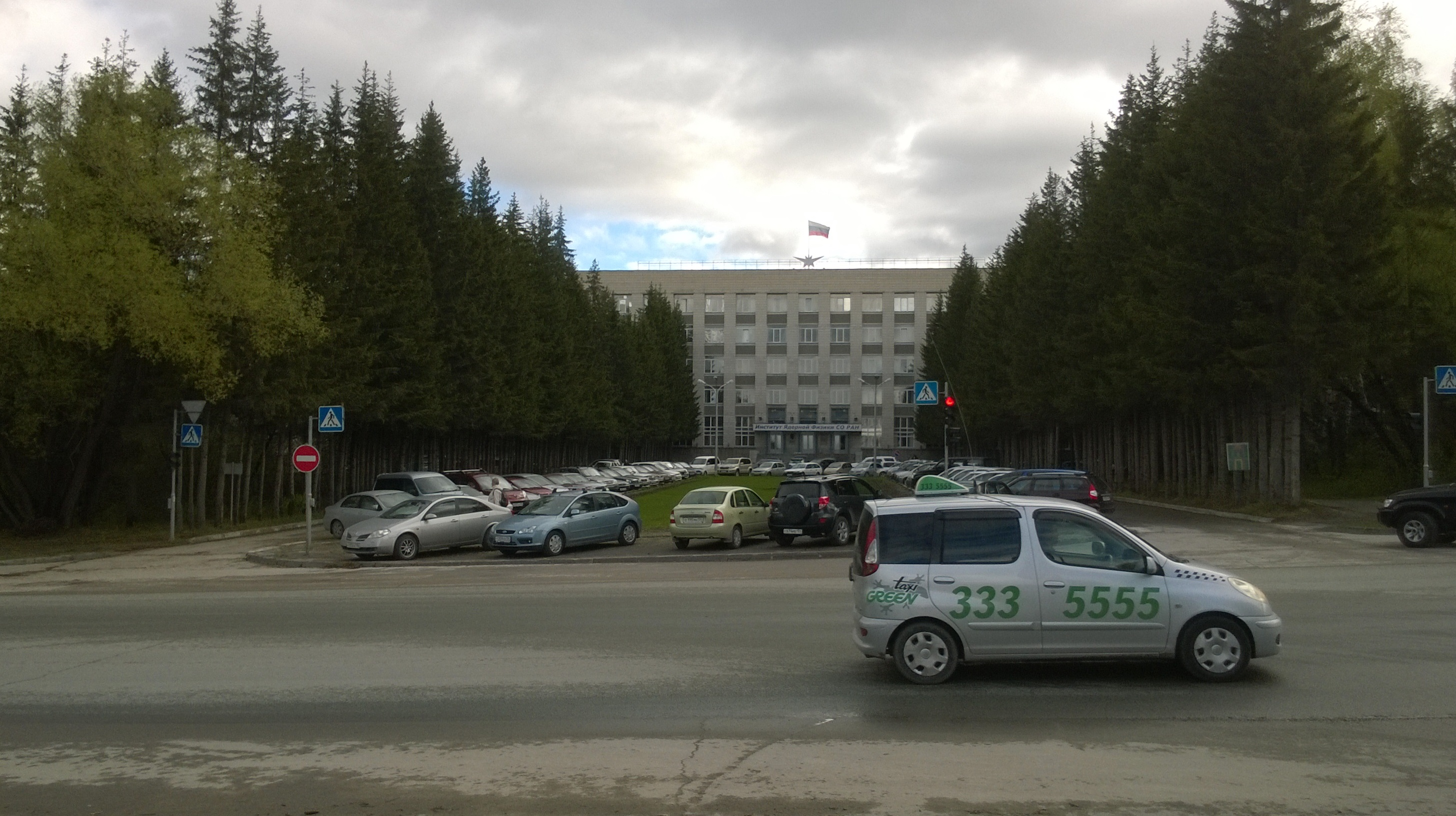 Taxis in Novosibirsk.